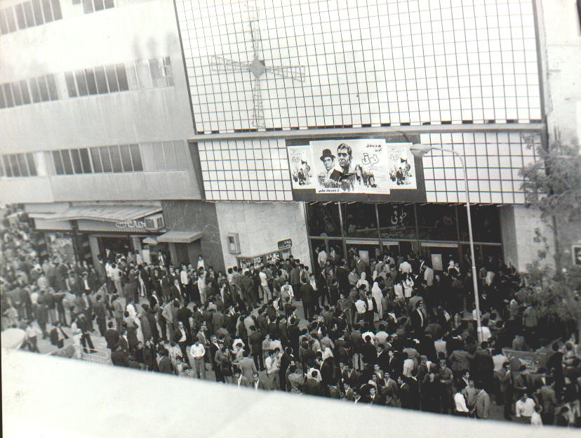 Premiere of the film Toghi, directed by Ali Hatami